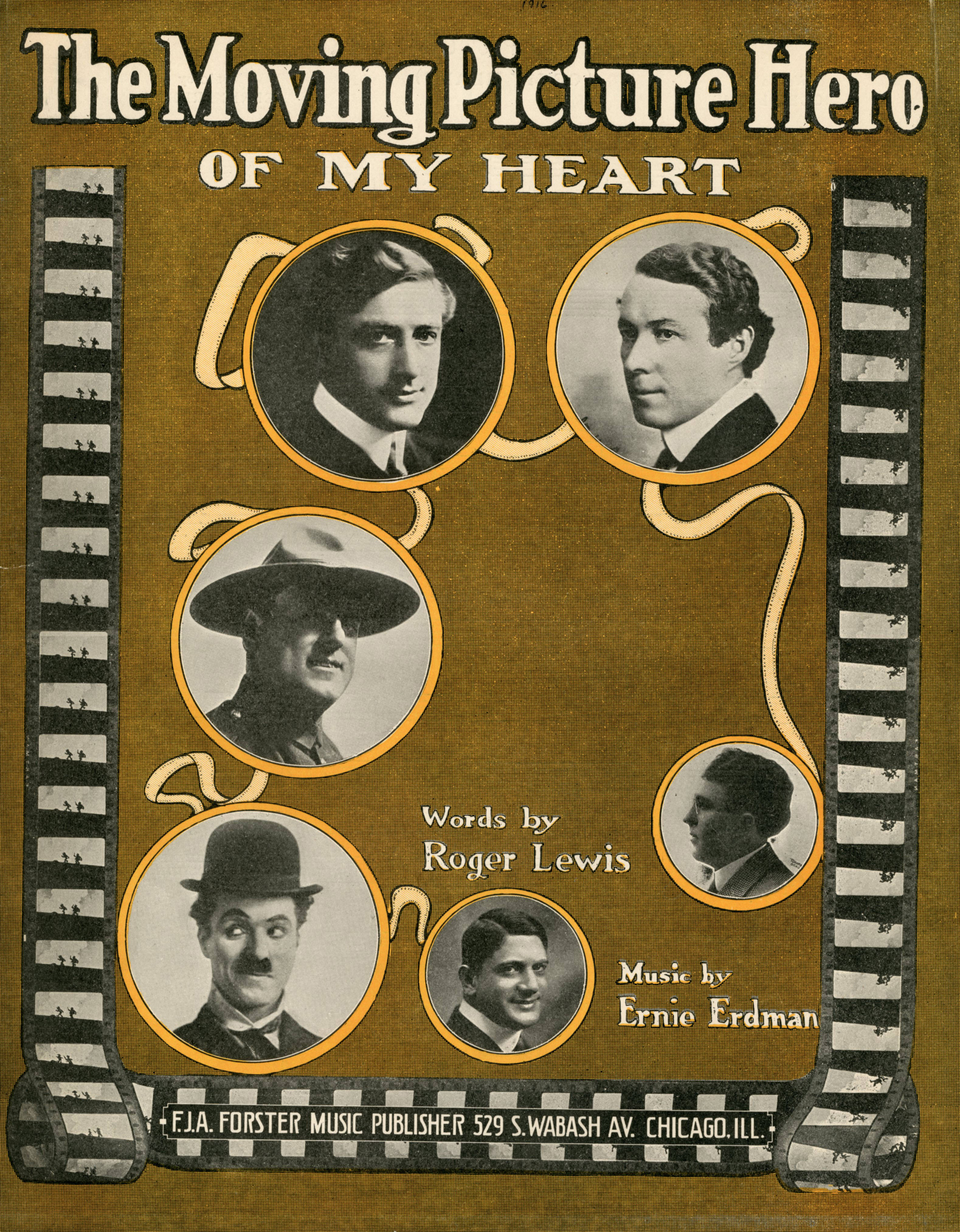 Sheet music cover: "The Moving Picture Hero : Of My Heart" 1 vocal score (5 p.) ; 35 cm. Illustrated cover with images of Charles Chaplin, Henry B. Walthall, Francis X. Bushman, G. M. "Broncho Billy" Anderson, Roger Lewis, and Ernie Erdman.